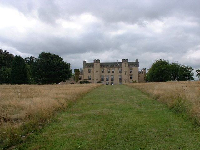 House of the Binns. FROM THE NATIONAL TRUST FOR SCOTLAND'S WEBSITE: "The House of the Binns stands as a living monument to one of Scotland’s oldest families, the Dalyells, who have lived here since 1612. It contains a fascinating collection of 17th- to 20th-century furniture, porcelain and portraits revealing the family’s lives and interests through the centuries. Military historians take note – it was here in 1681 that General Tam Dalyell formed the legendary regiment of Royal Scots Greys. Students of architecture, meanwhile, will be interested to see how the house reflects the 17th-century transition from fortified stronghold to spacious mansion."